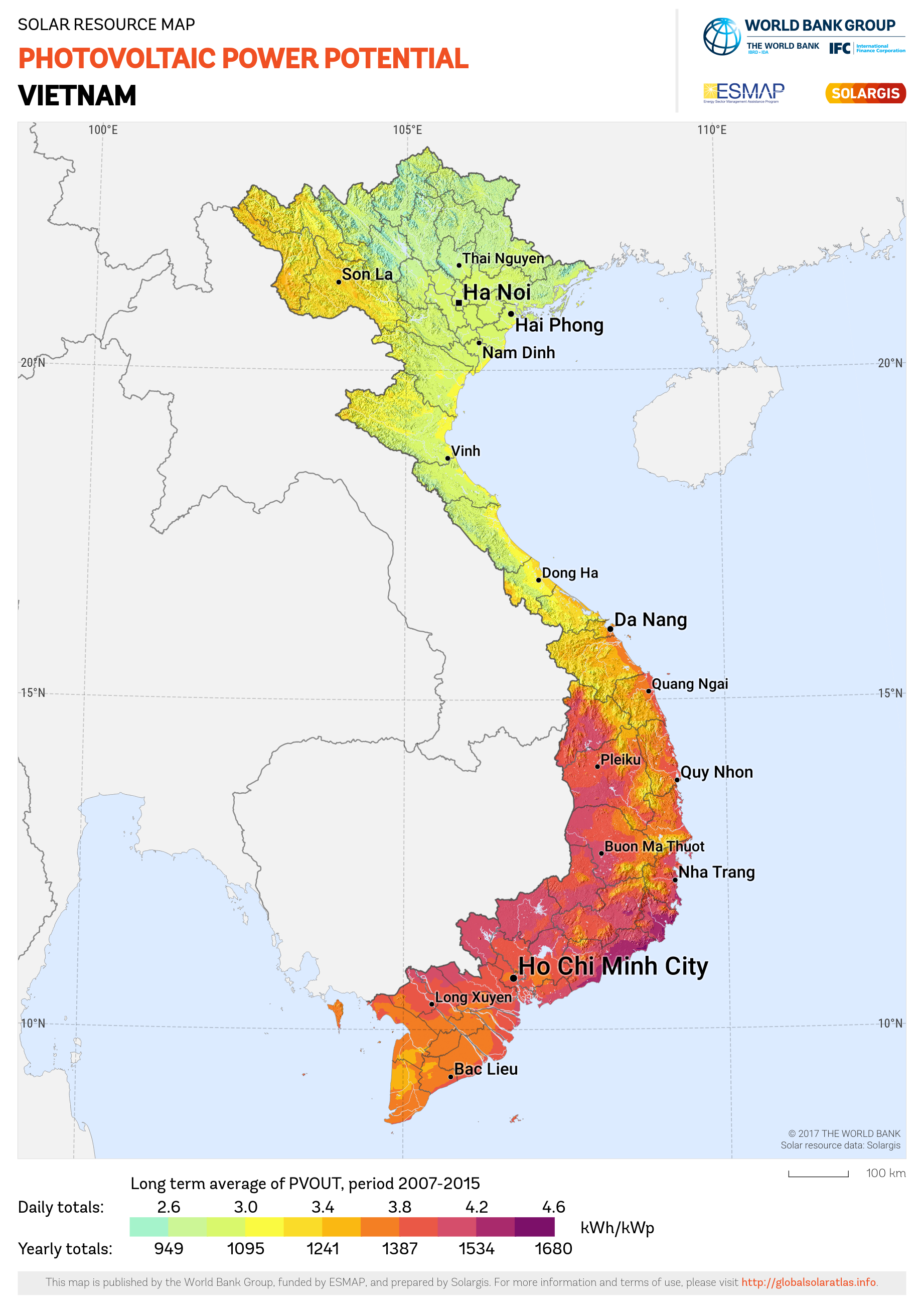 This map is taken from Global Solar Atlas, available at